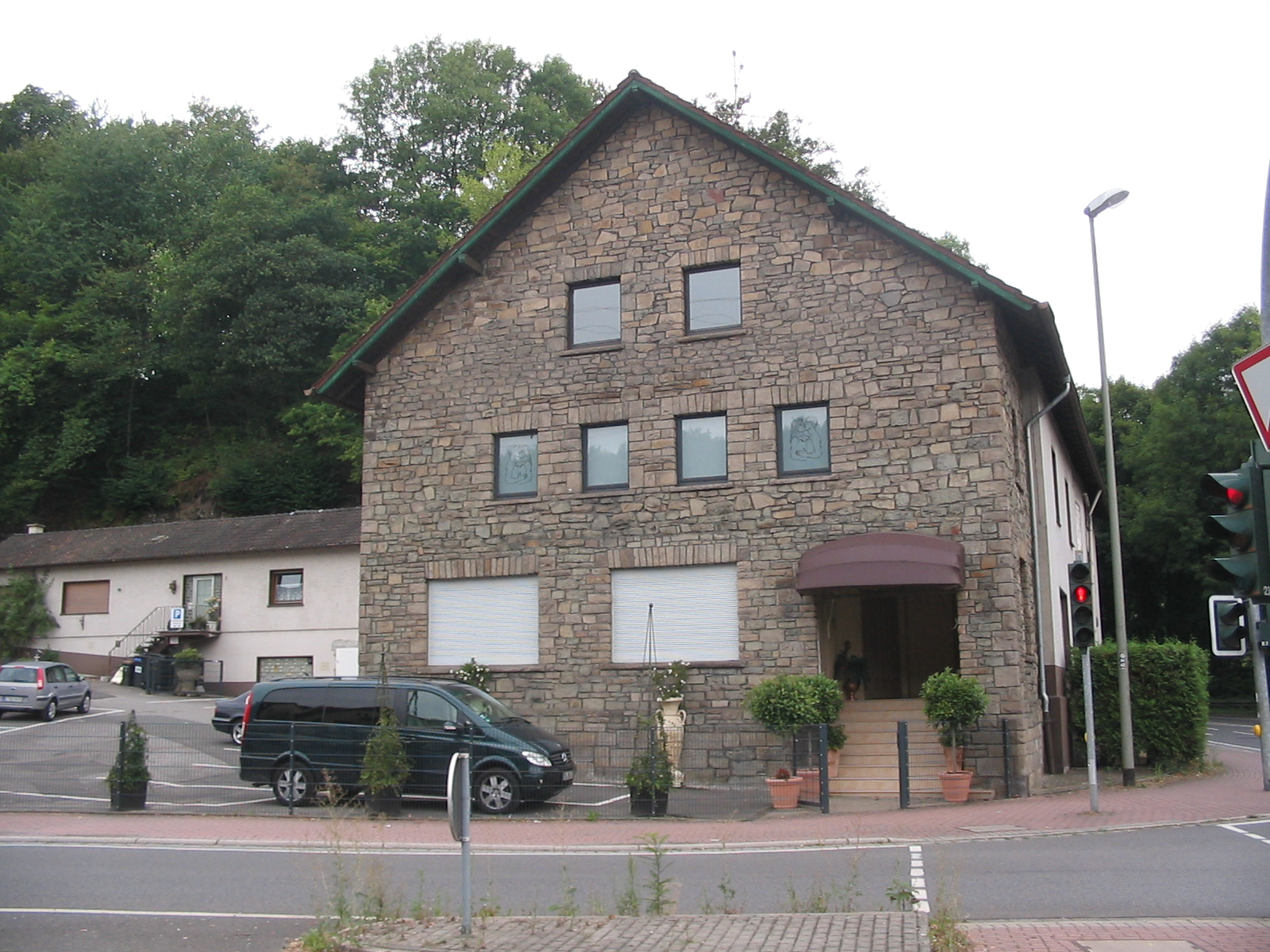 Steinenhaus, house Im Hammertal 2 in Hattingen, sex club Steinenhaus Erlebnisclub